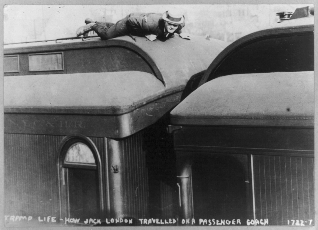 Jack London lies on a roof of a passenger railroad car.